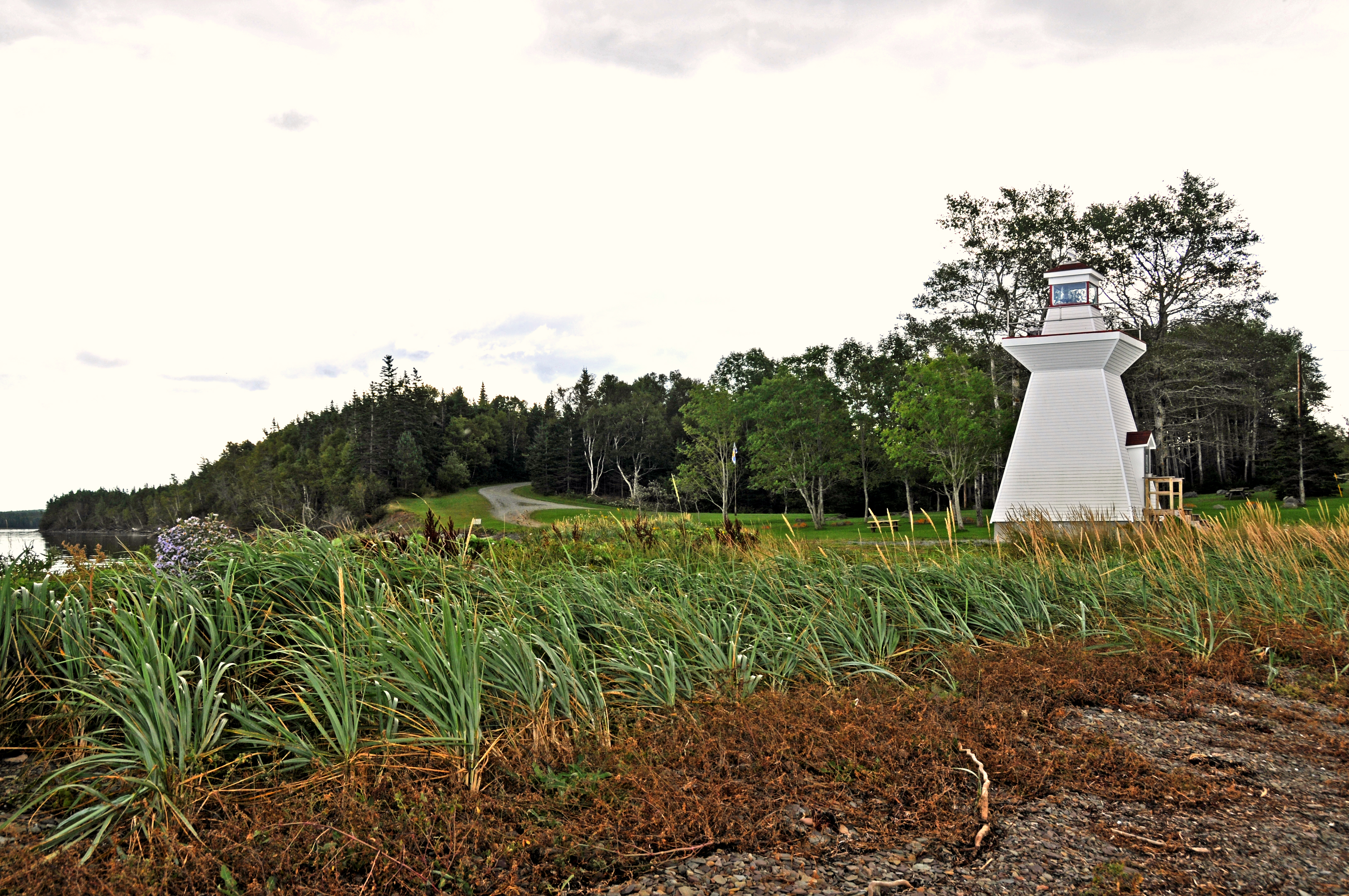 PLEASE, no multi invitations, glitters or self promotion in your comments. My photos are FREE for anyone to use, just give me credit and it would be nice if you let me know, thanks - NONE OF MY PICTURES ARE HDR. This lighthouse is located in a Provincial Park, a great place to sit, walk of have a picnic with the family. Location: On beach near wharf at Grandique Point (Lennox Passage) Began and Lit: 1884 Tower Height 9.75 meters (32ft) Light Height: 8.84 meters (29ft) above water level Scenic Drive: Fleur-de-lis Trail